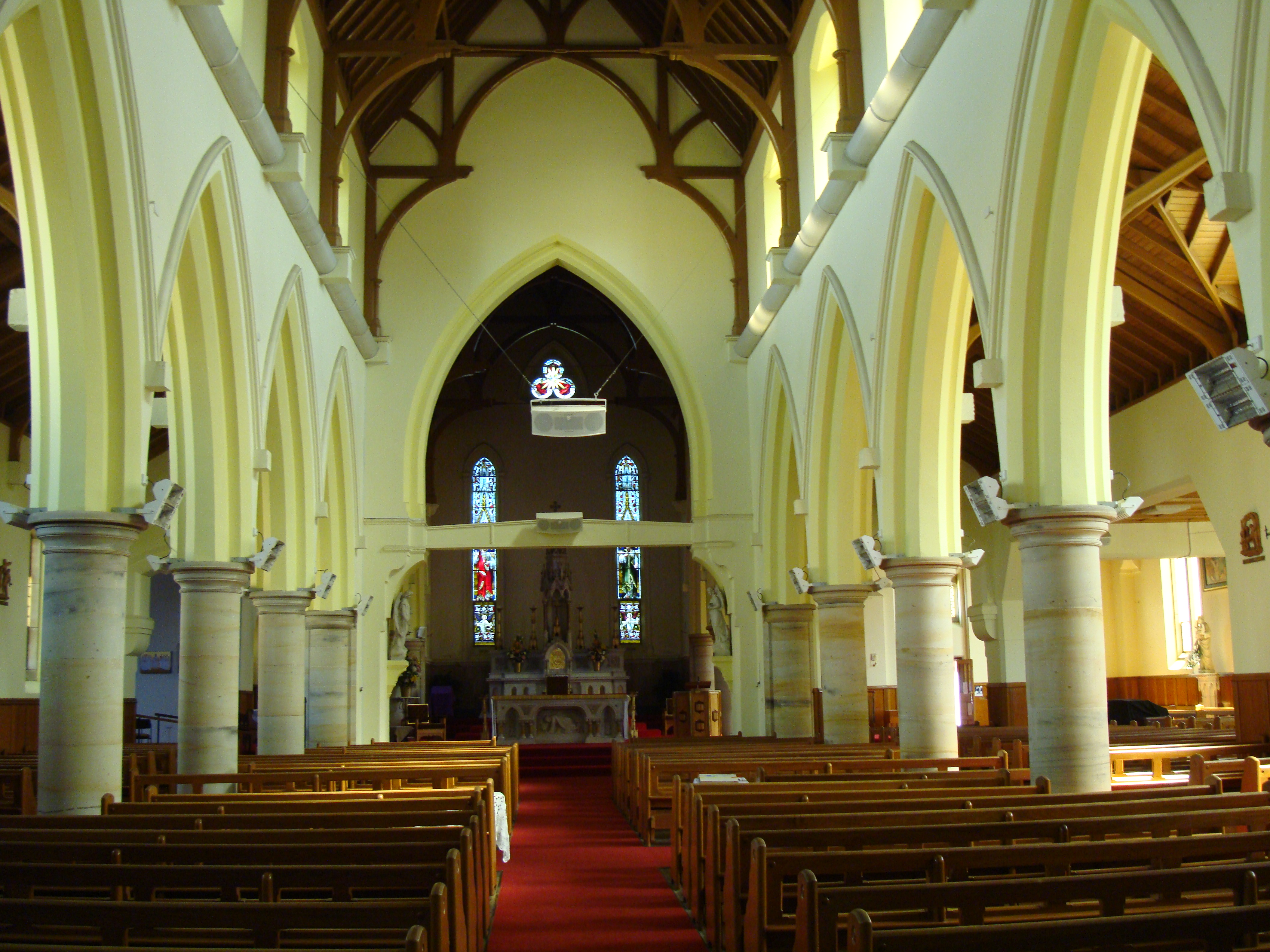 Photograph of the interior of SS Michael & John's Cathedral, Bathurst, New South Wales, Australia